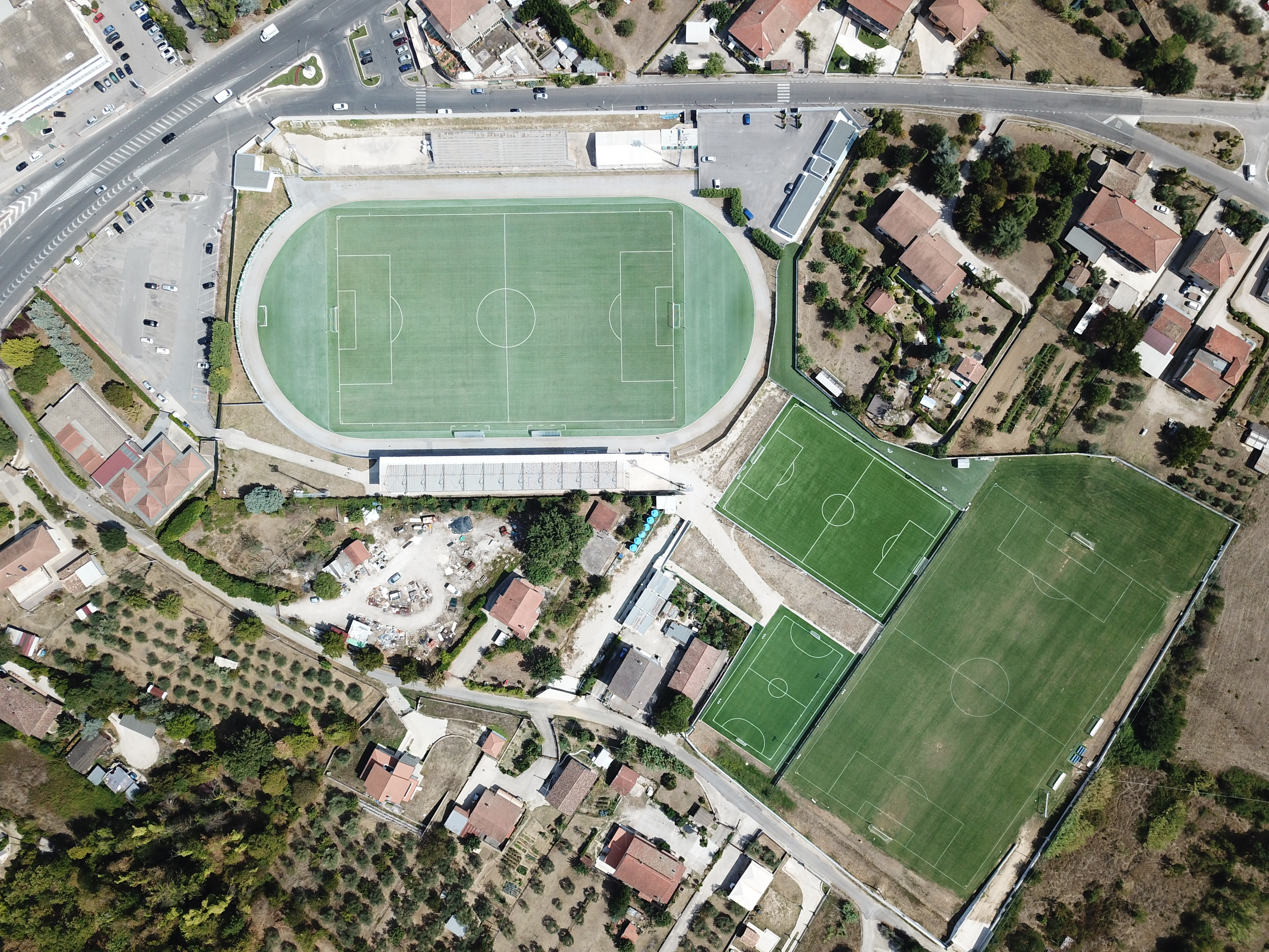 Frosinone Calcio: Cittadella dello Sport training centre in Ferentino. Panoramic view